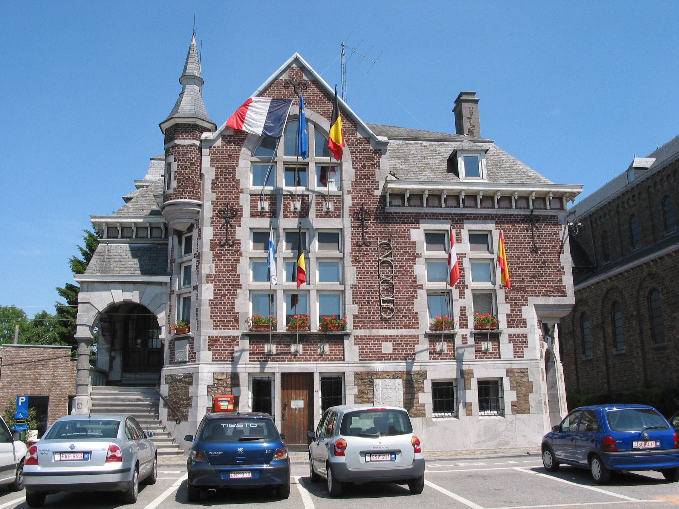 Battice (Belgium), the former city hall.